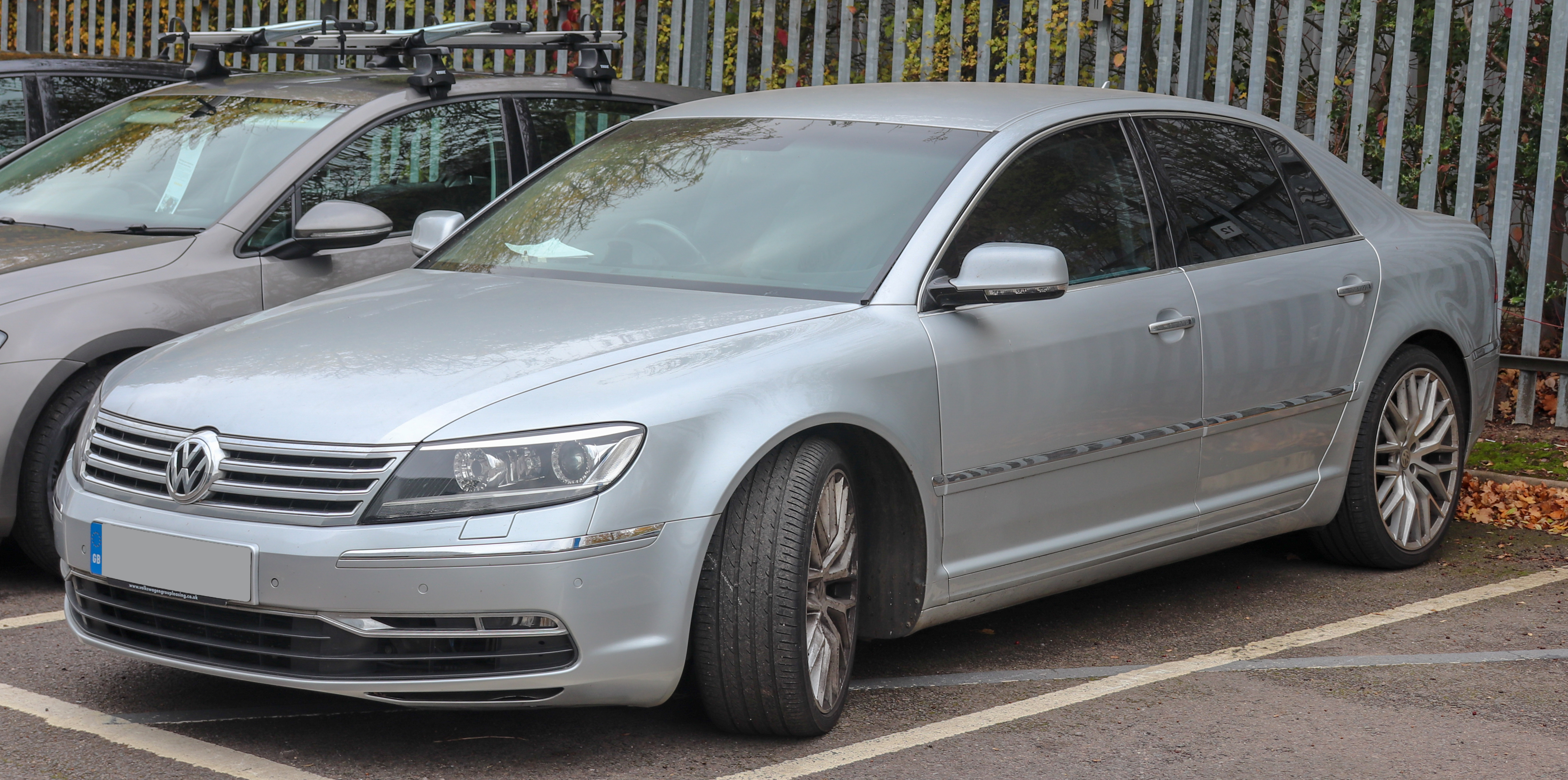 2013 Volkswagen Phaeton V6 4MOTION TDi SWB Automatic 3.0 Taken in Leamington Spa